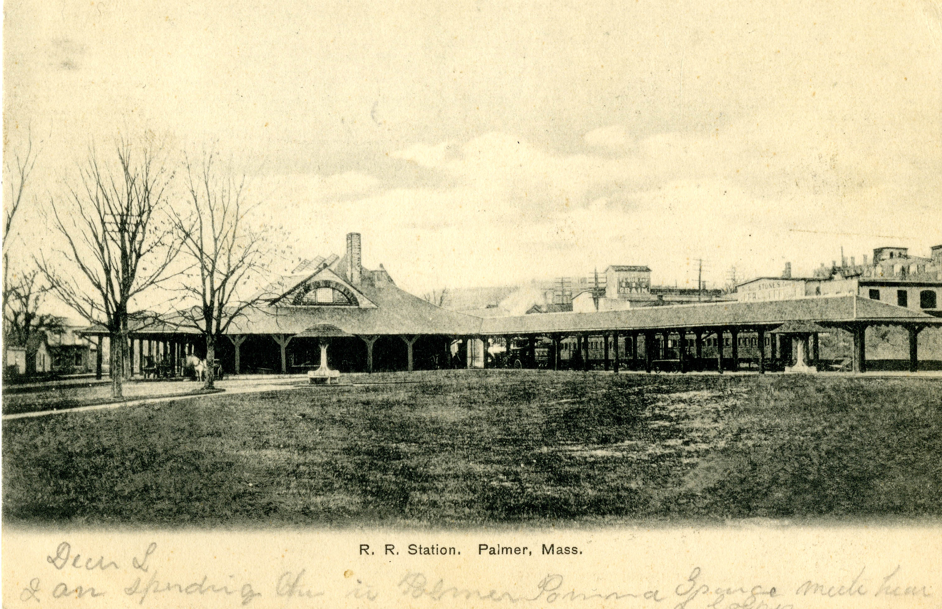 Old postcard of Palmer, Massachusetts, USA. This card was published before 1923 and hence is now in the public domain. It is from the Digital Treasures collection